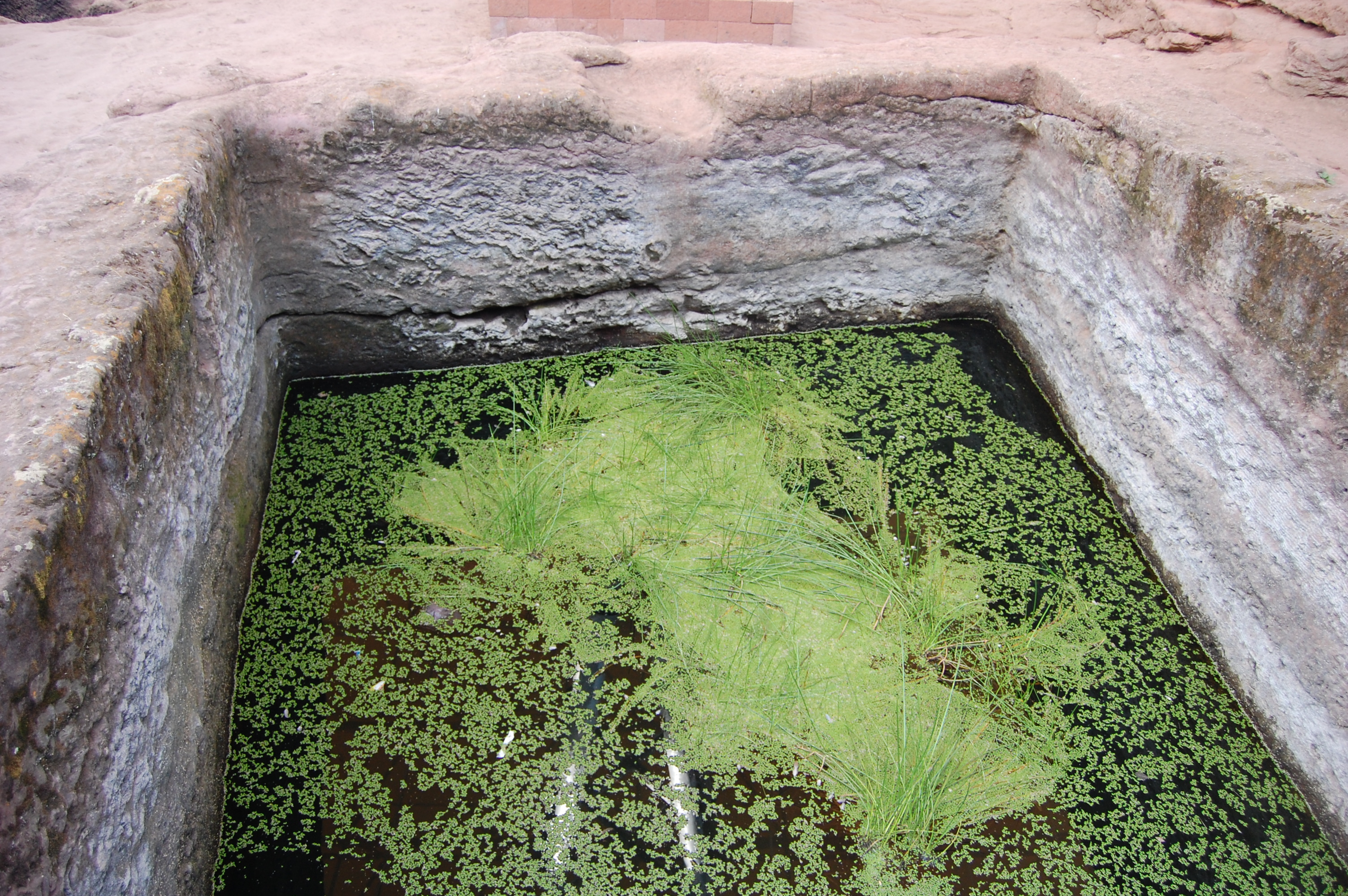 Infertile women are dunked in this pool